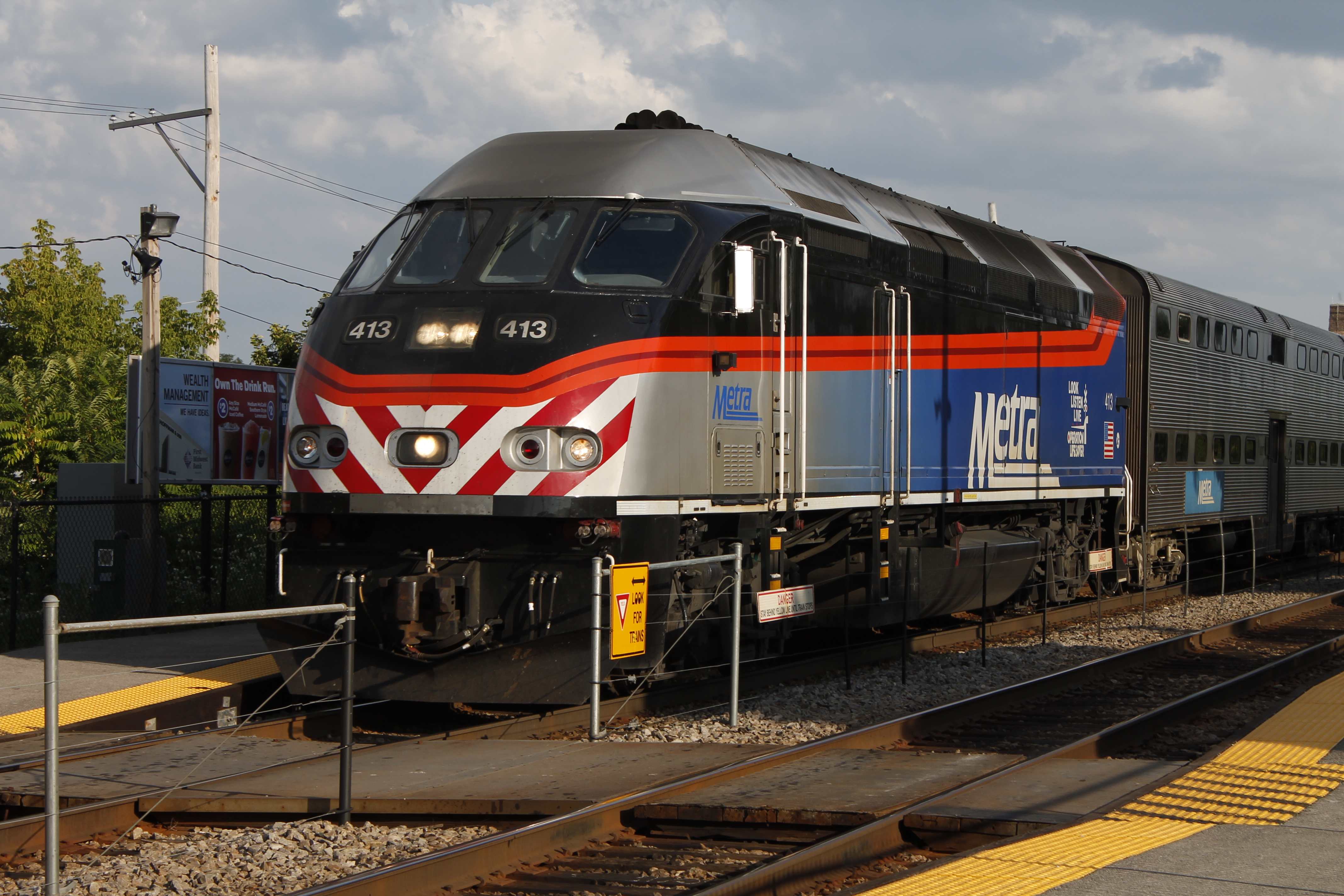 Metra MP36 #413 leads a local train through Mayfair on the MD-N